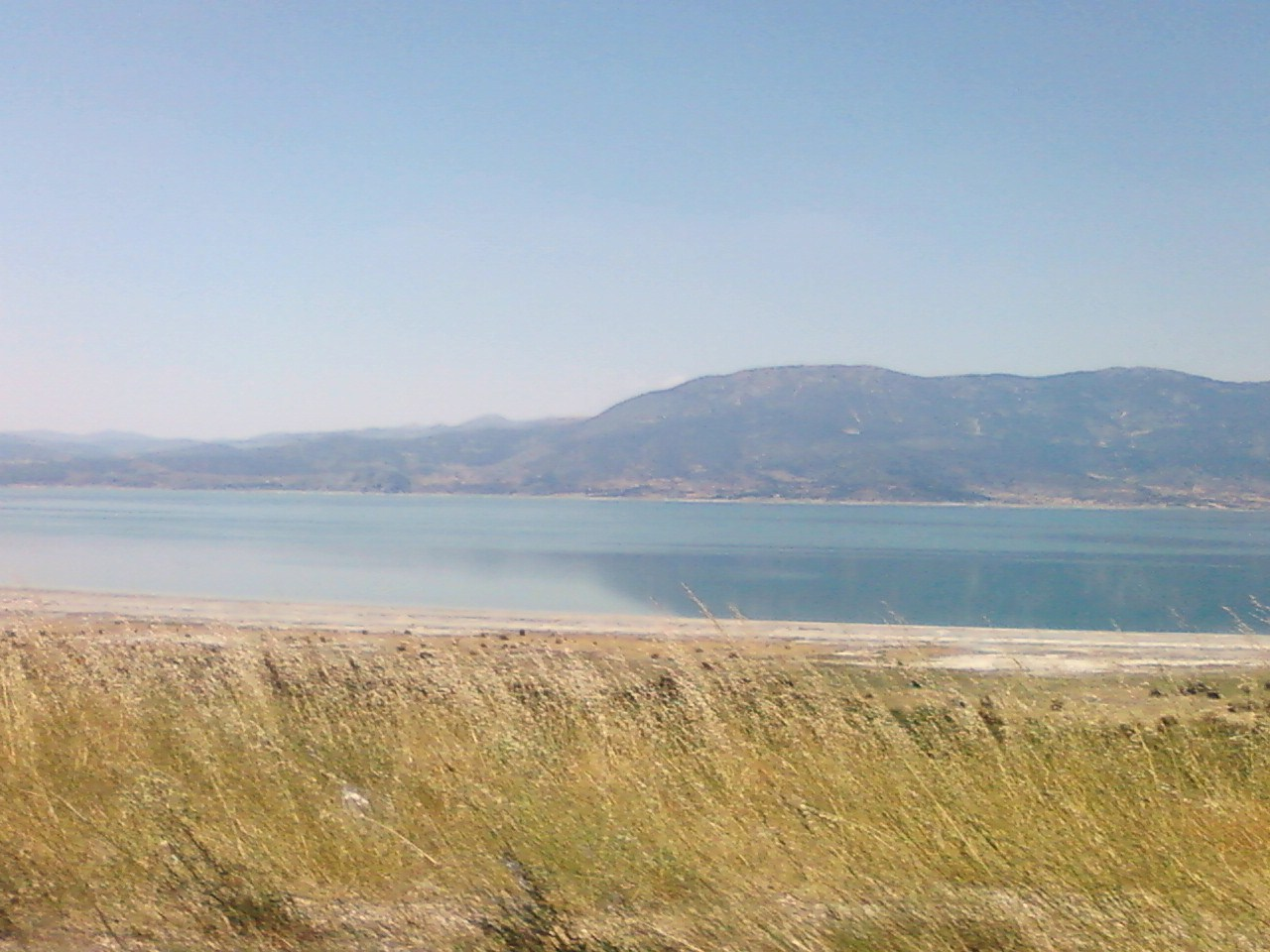 Lake Burdur